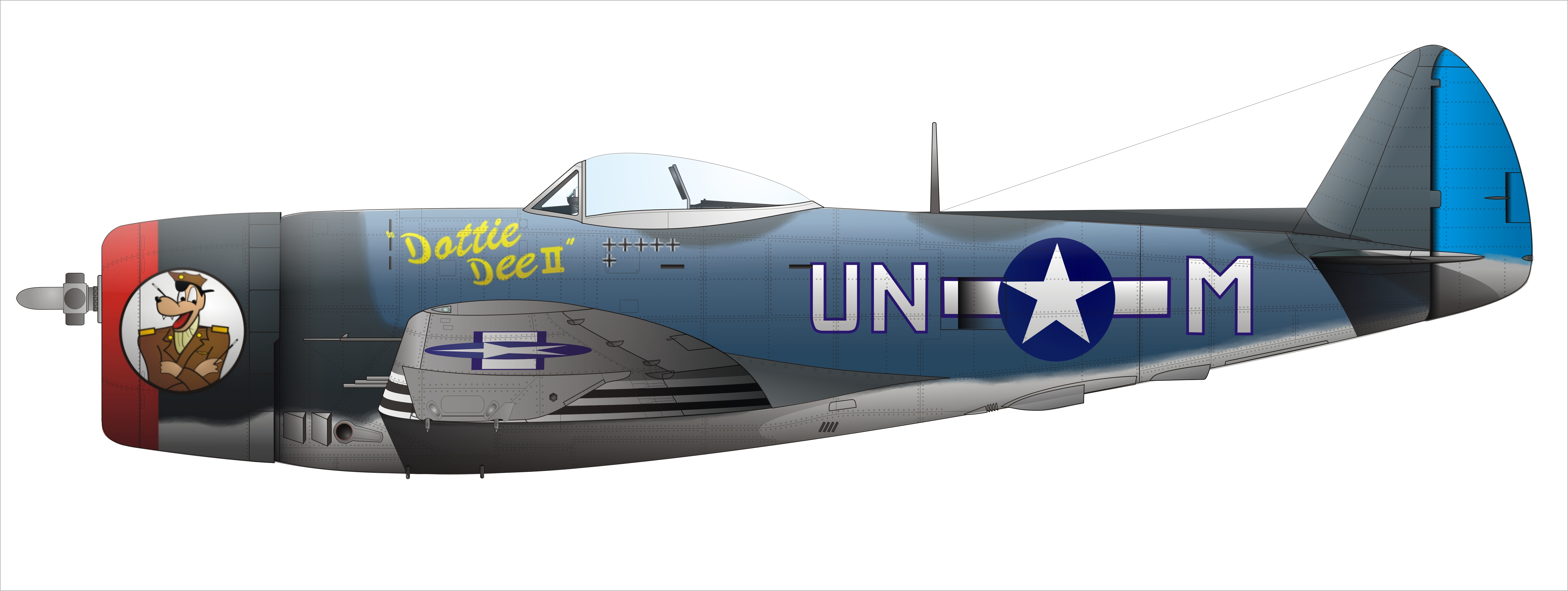 Republic P-47 M-1, 63. FS/56. FG, Boxted/Essex 1945